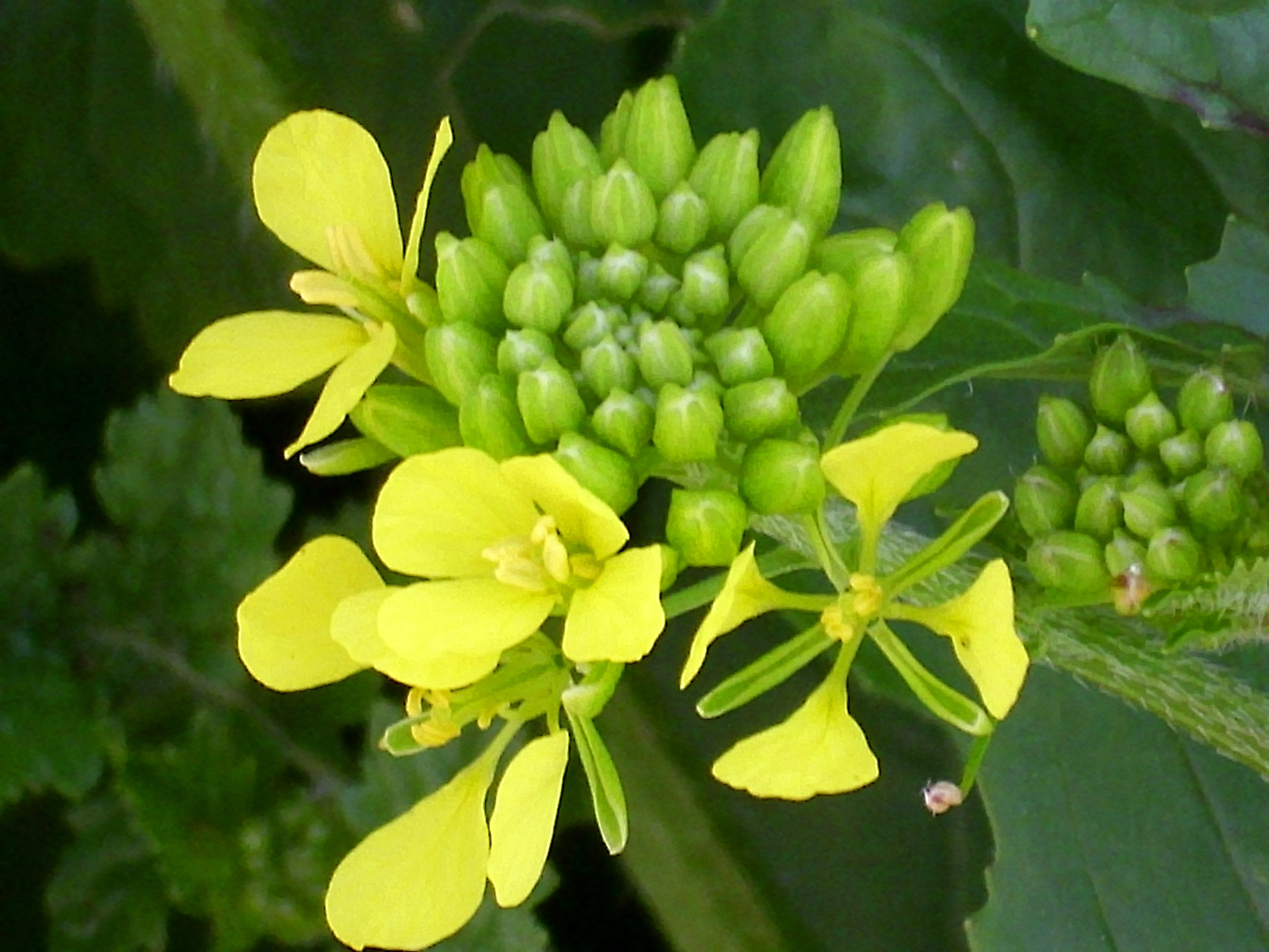 Sinapis alba inflorescence close up, Dehesa Boyal de Puertollano, Spain